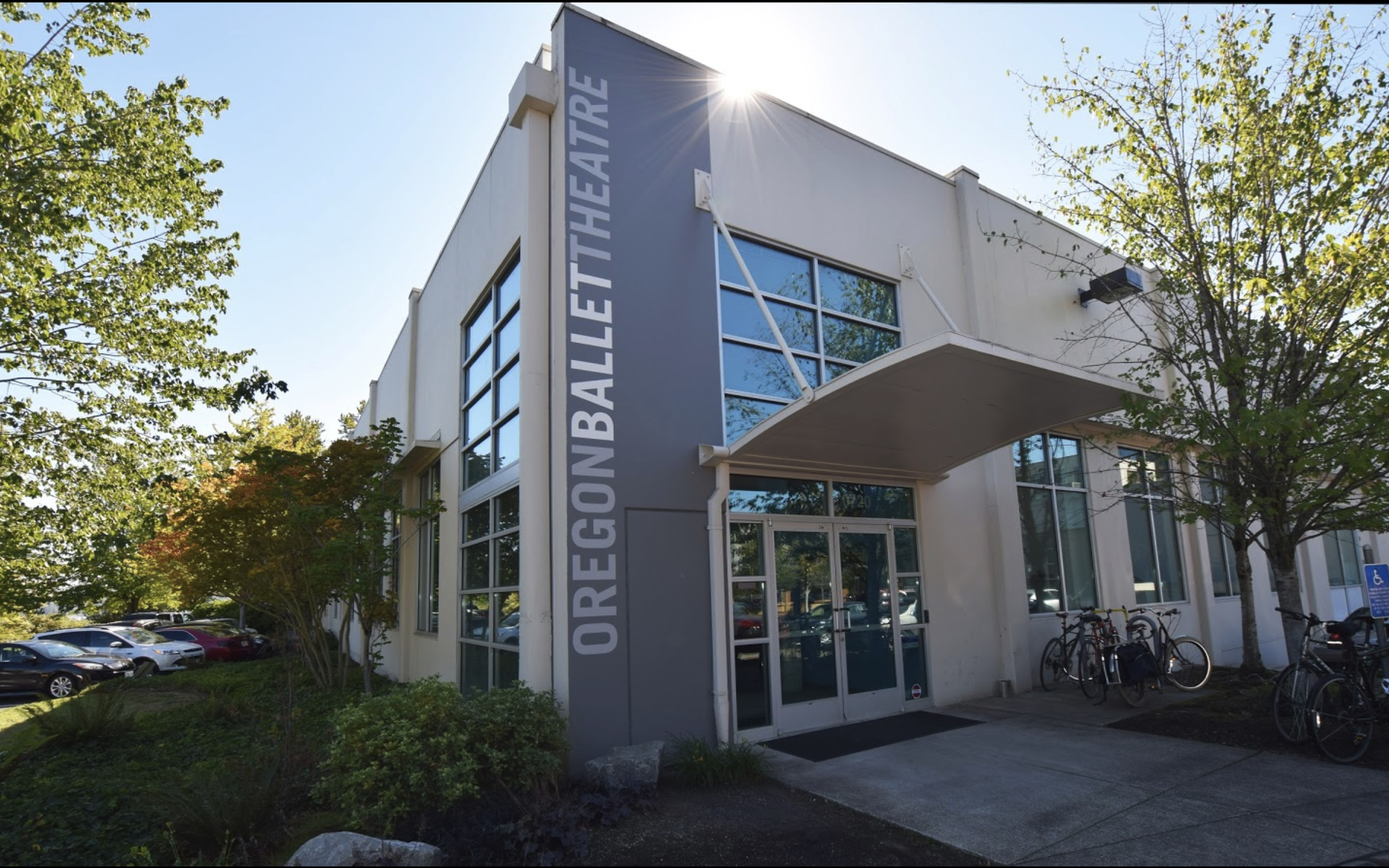 Home of the Oregon Ballet Theatre and OBT School